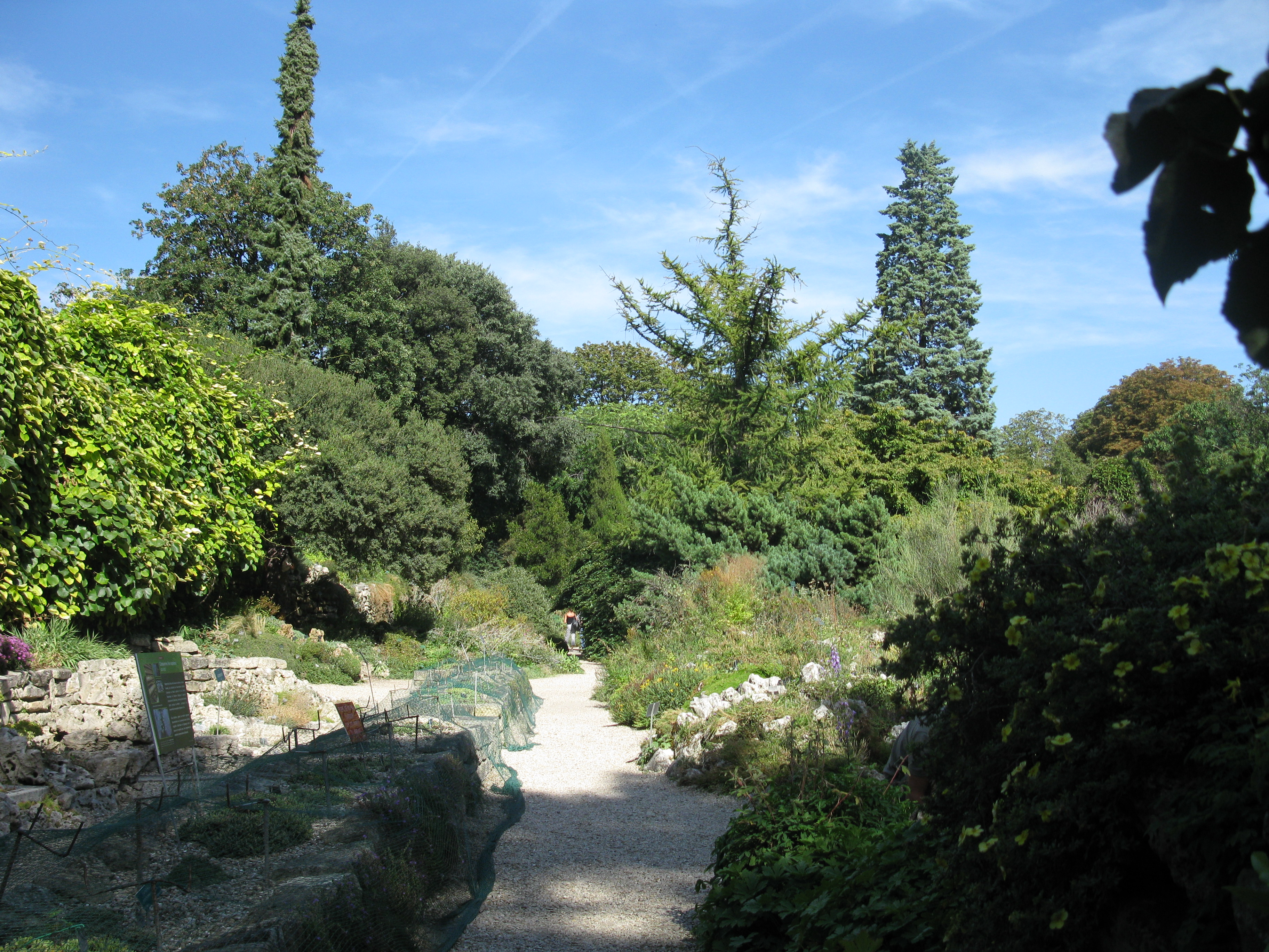 Jardin Alpin (Alpine garden), Muséum National d'Histoire Naturelle, Paris